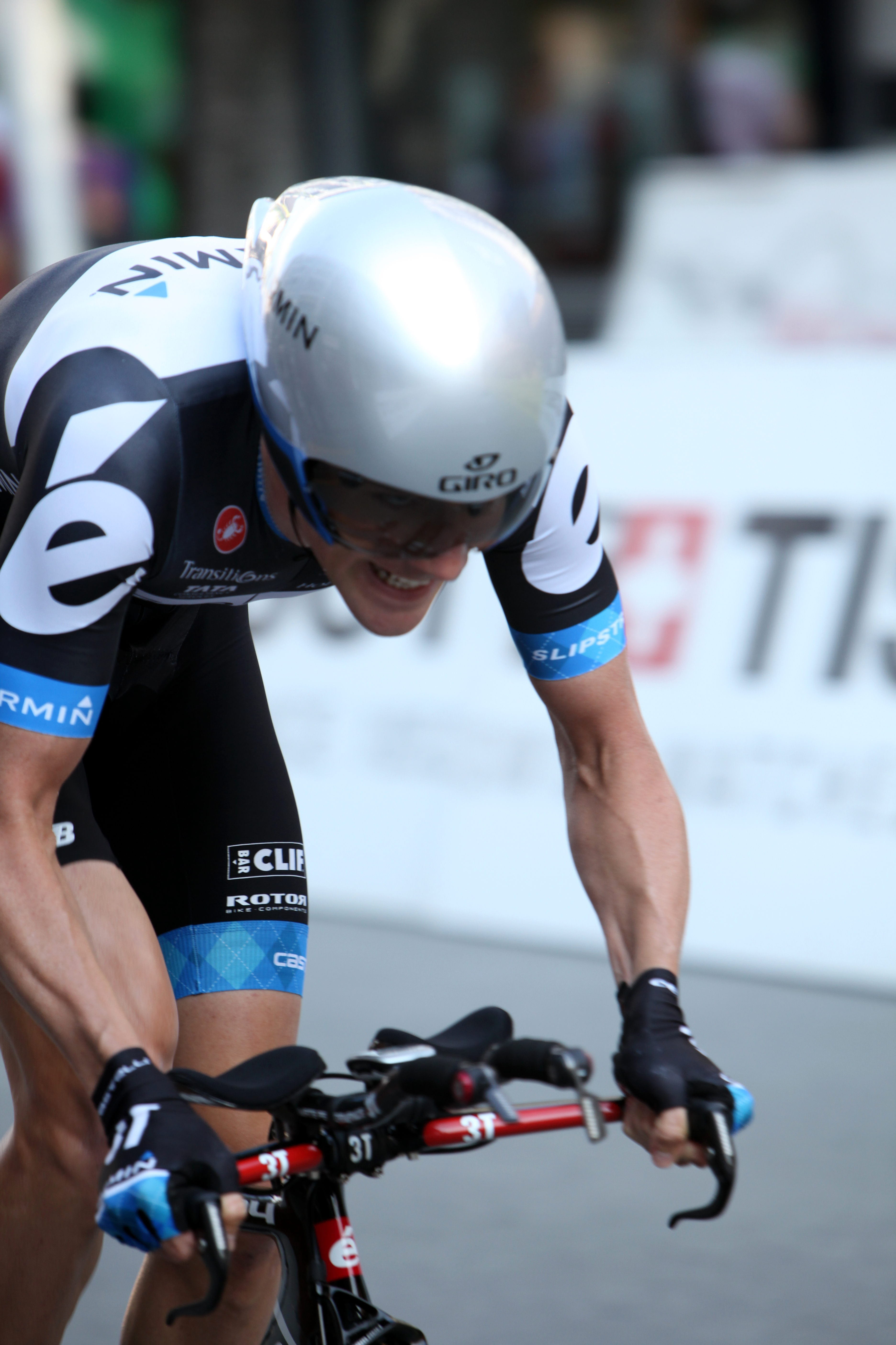 David Zabriskie at the prologue of the Tour de Romandie 2011